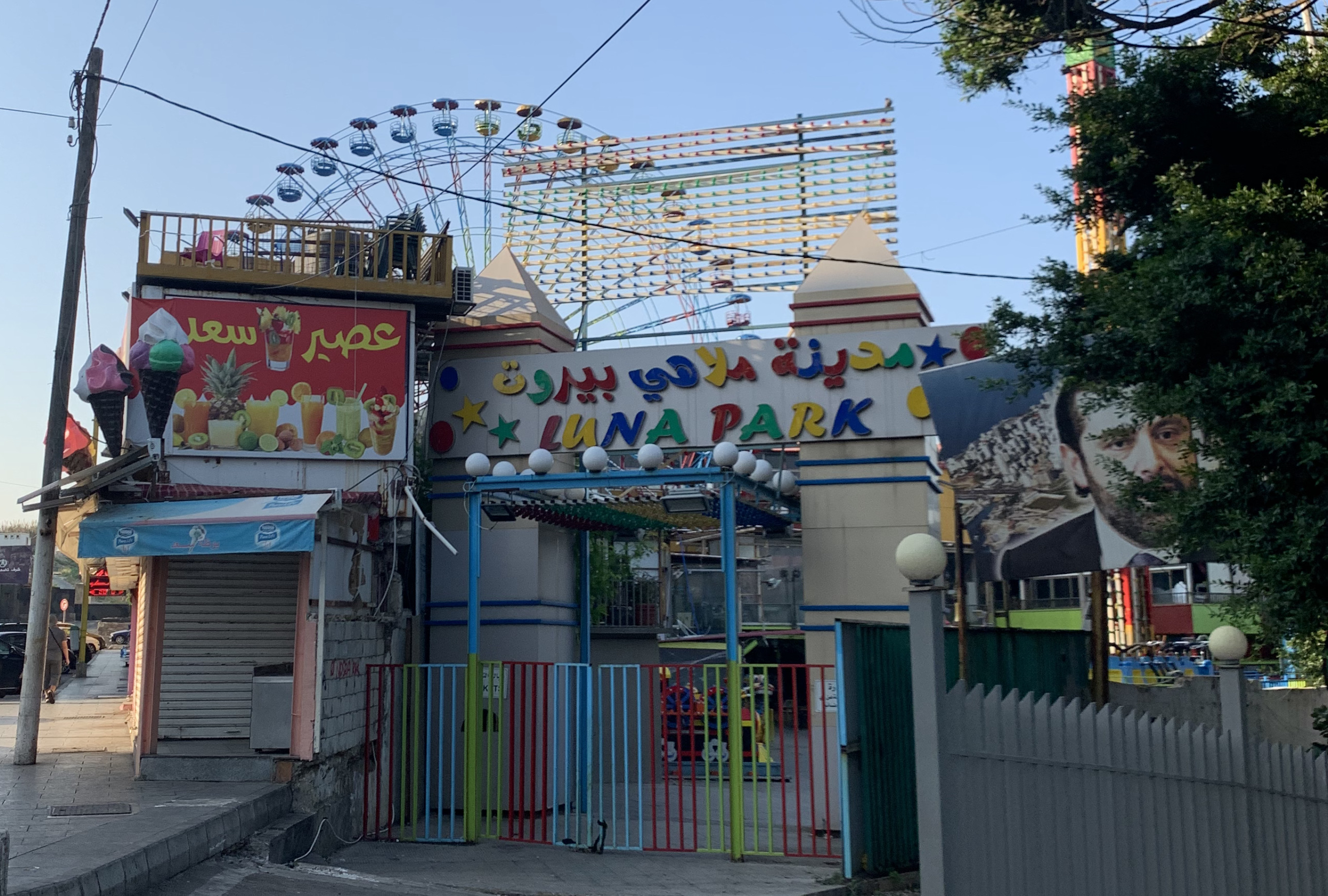 Beirut Luna Park entrance 2019